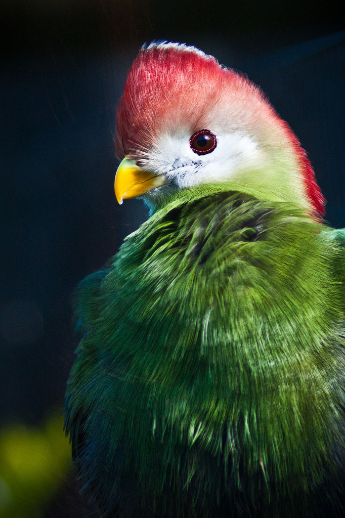 A Red-crested Turaco at Belfast Zoo, Northern Ireland.